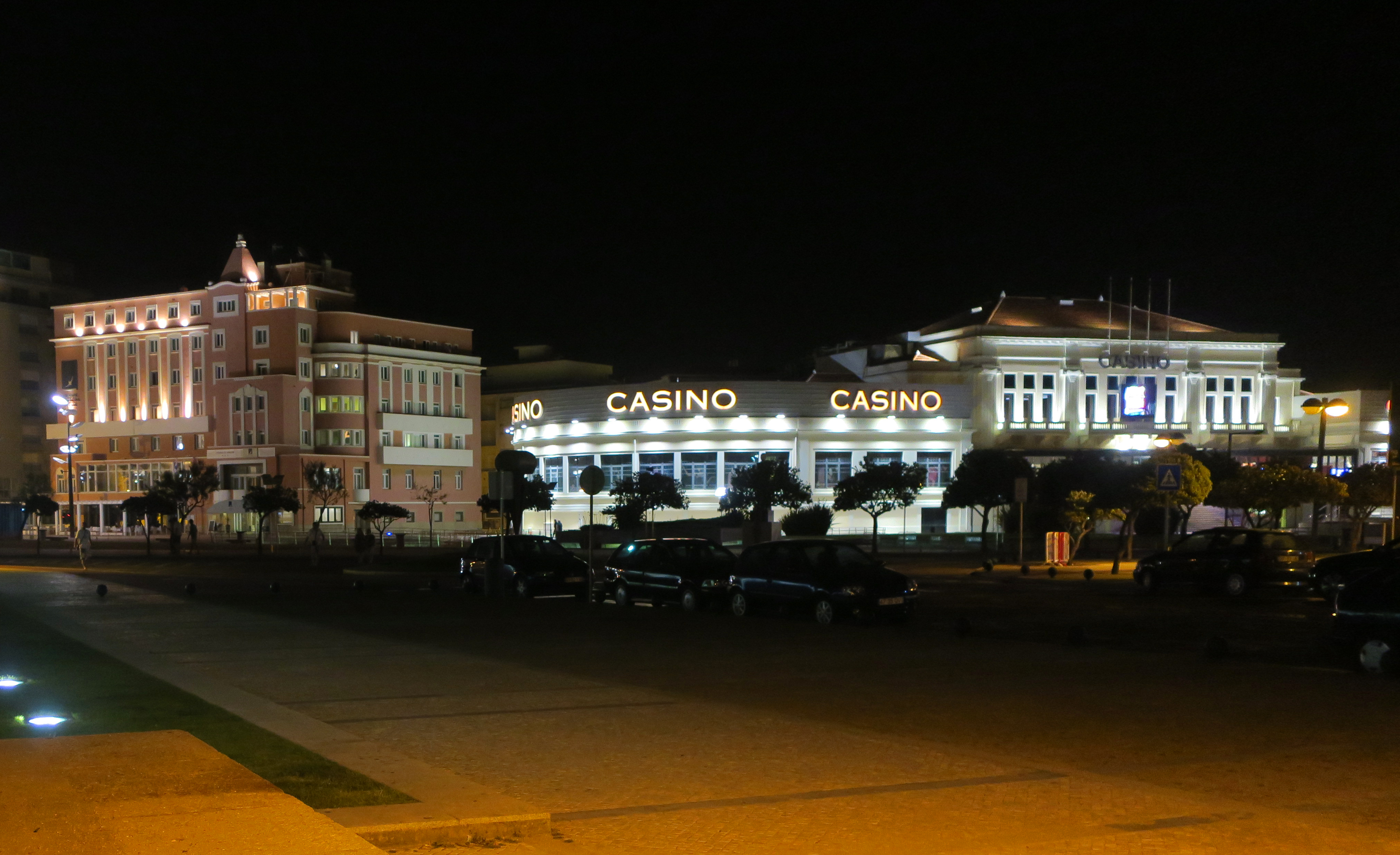 Caino da Póvoa and Grande Hotel, 1930's Portuguese modernism